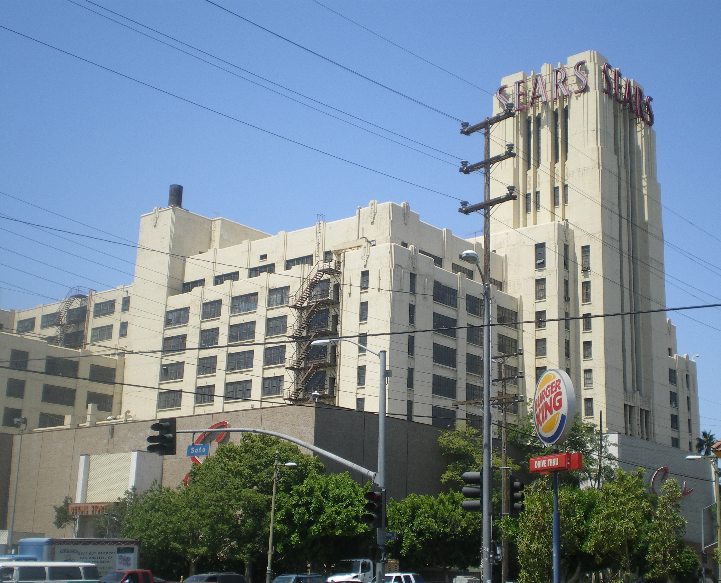 Sears, Roebuck & Company Mail Order Building, 2650 E. Olympic Blvd., Los Angeles, California